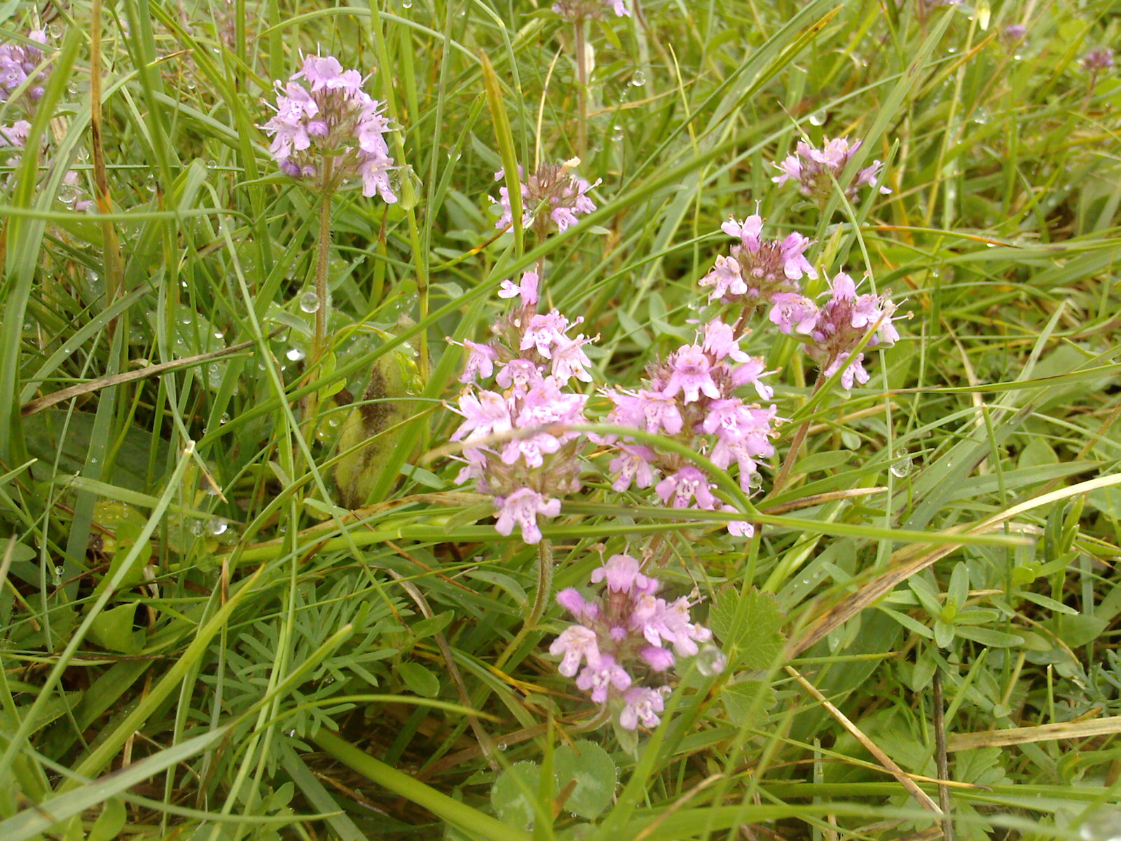 Thimus serpyllum (flowering plants), Romania, Brasov